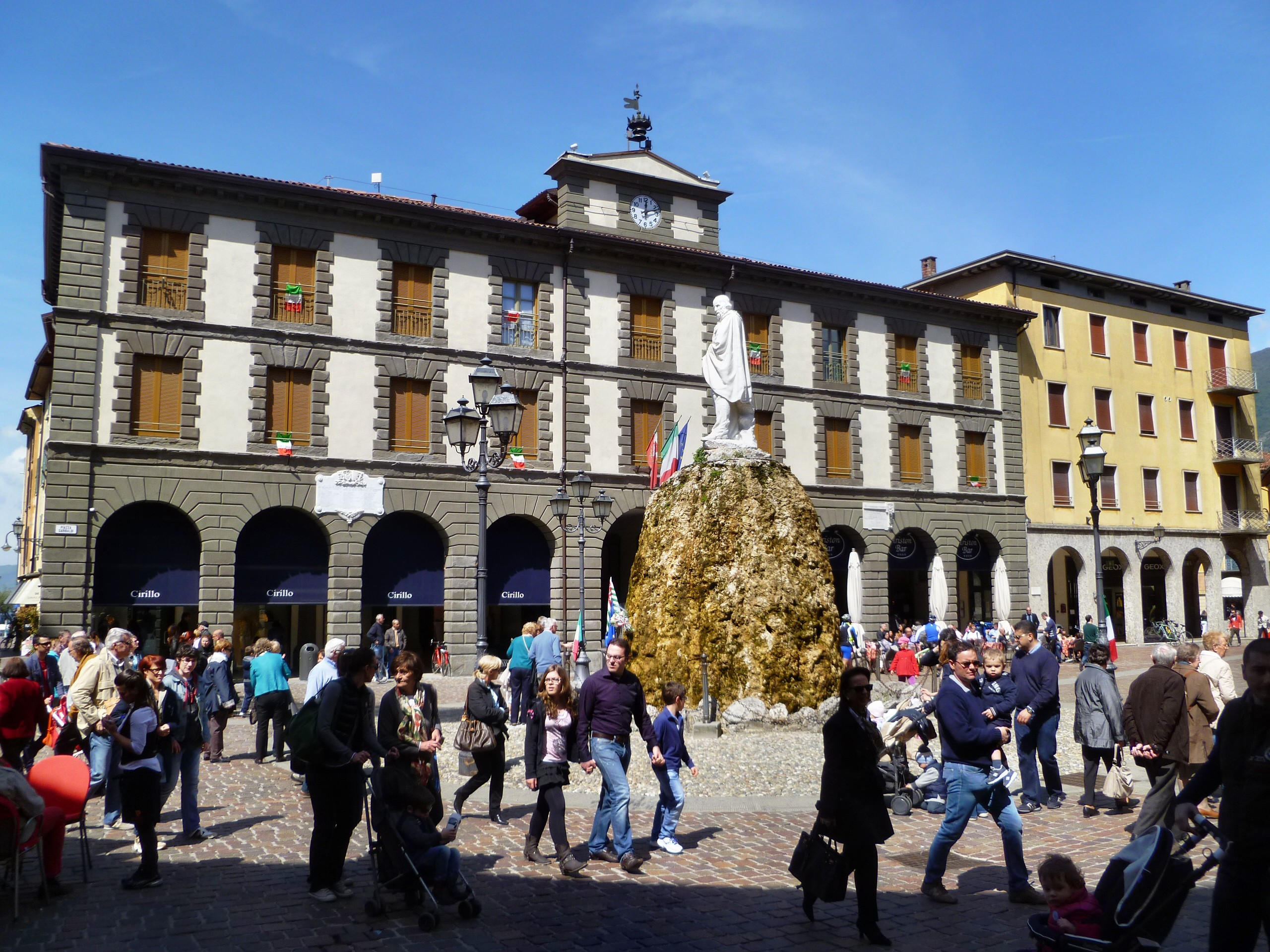 Garibaldi Square with the Garibaldi monument and "Vantini" Palace, the Town Hall; Iseo (Lombardy), Italy